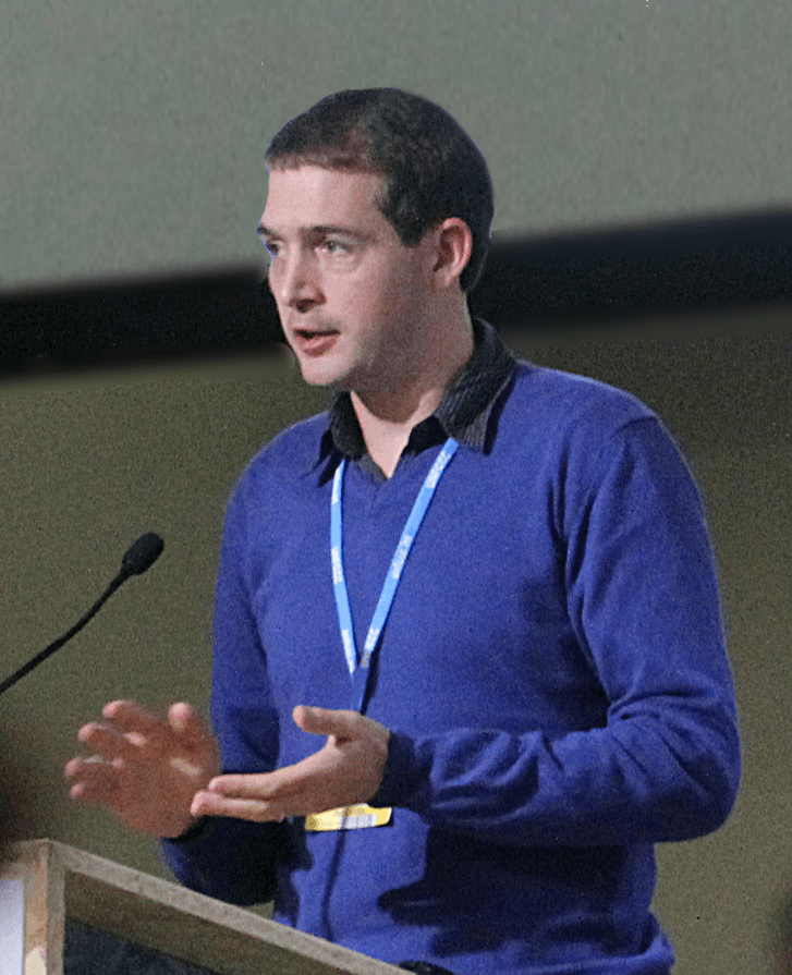 Ed Hawkins (scientist) at COP 21 (Paris) on 2 December 2015. Hawkins is known for developing the data visualizations, Climate spiral and Warming stripes. This file is a cropped version of image linked below, in "other versions", though I digitally removed distracting bright background portions.